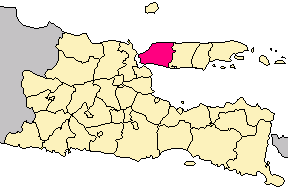 locator map for the Bangkalan Regency.